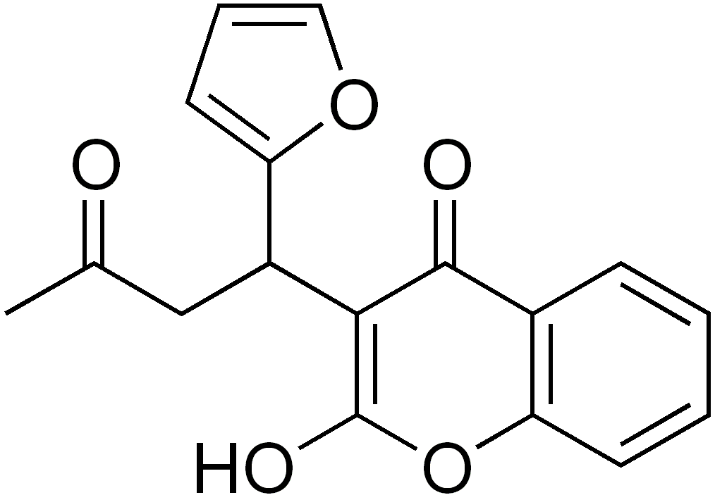 chemical structure of fumarin